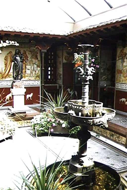 Roof Garden, Cardiff Castle, Cardiff, Wales